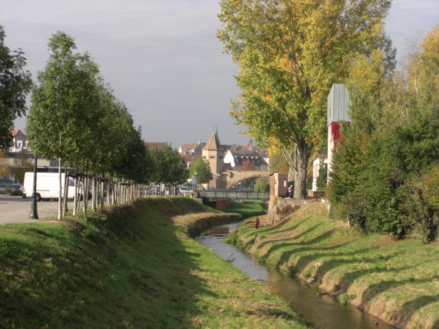 the Moder River, passing through Haguenau